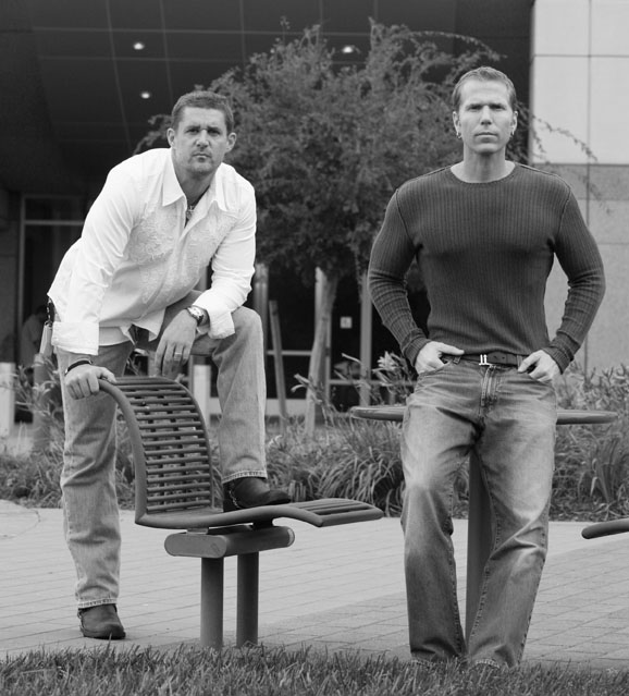 glen and Mike at Sledgehammer hqtrs.